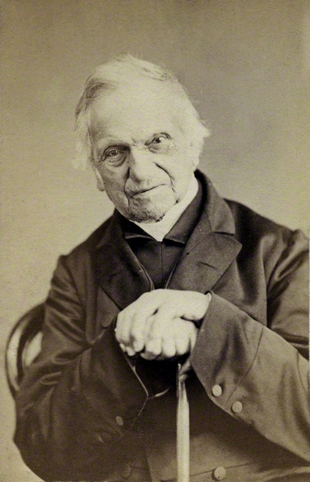 Adam Sedgwick, 1867